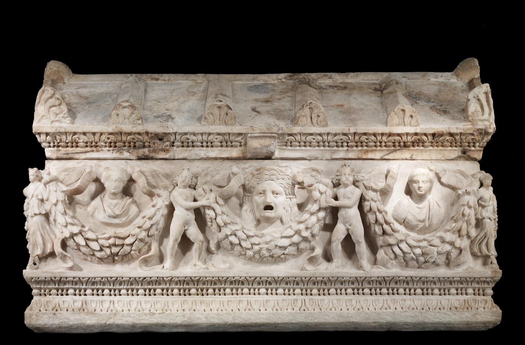 Unlike many sarcophagi, this one is carved on all four sides in high relief. Garlands held by winged goddesses or personifications on the corners and Eros (Cupid) figures on the sides support the busts of a crowned deity (left) and a young girl (right). The sarcophagus was probably intended for her. In the center, on both the front and back, is a theatrical mask-on this side Tragedy, on the other, Comedy. Medusa heads decorate the ends. The lid takes the form of a temple roof with a pediment (triangular gable) at each end. This sarcophagus can be traced to a particular workshop active near the ancient quarry of Dokimeion in Phrygia in Asia Minor. Its discovery in Rome illustrates the long-distance trade in even very large, heavy luxury goods that took place at the height of the Roman Empire.